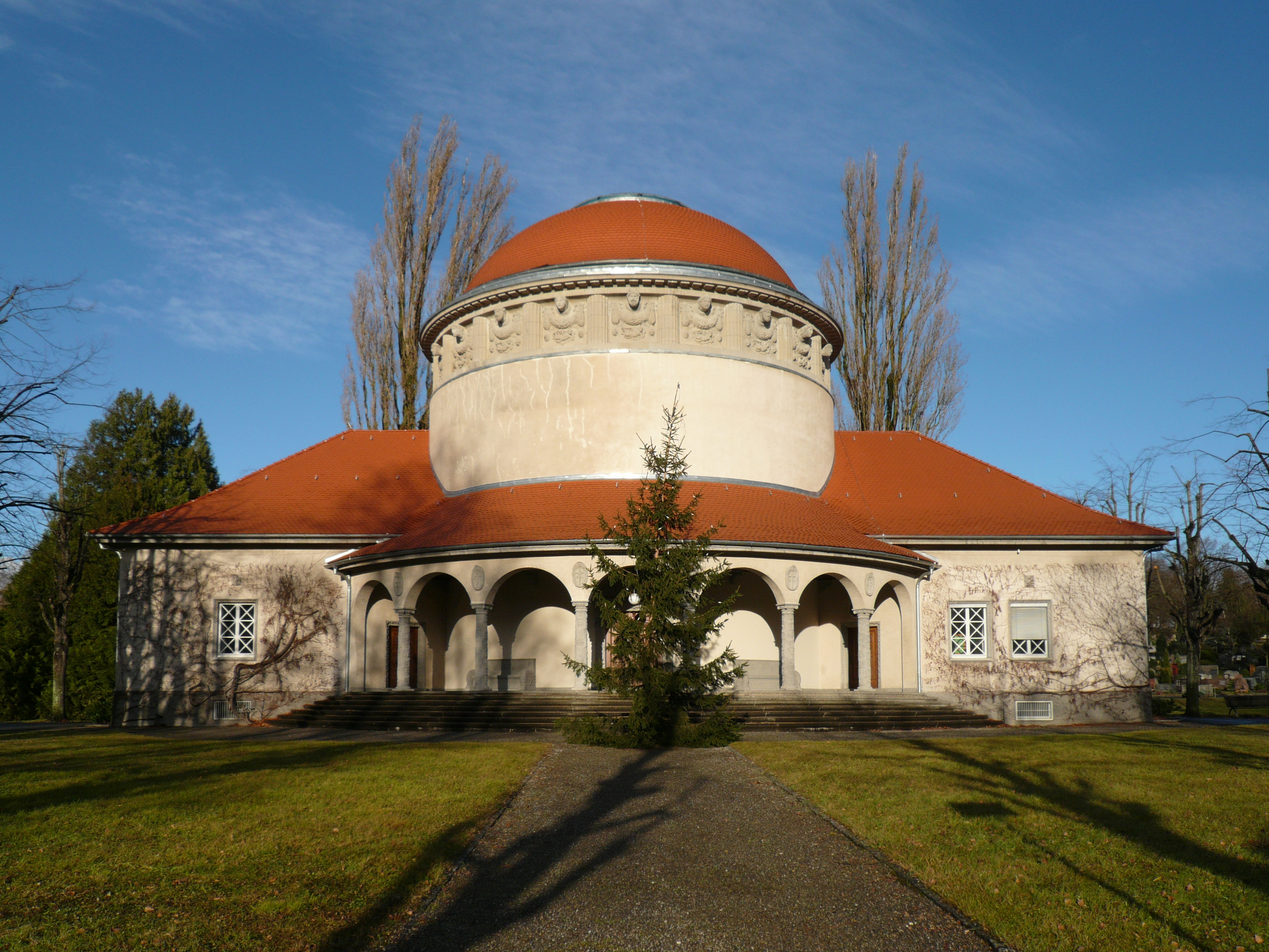 Crematorium on Konstanz cemetery